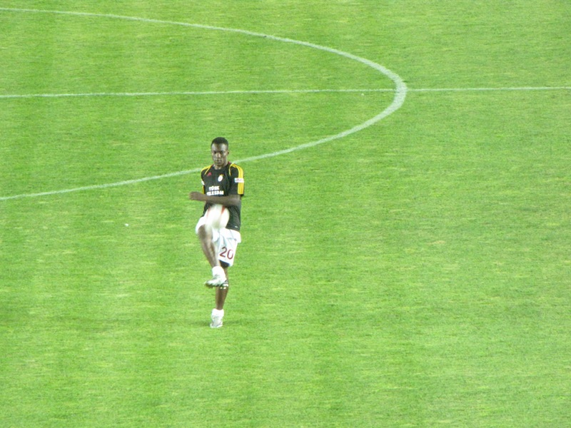 Galatasaray-Tobol European Cup 23.07.2009